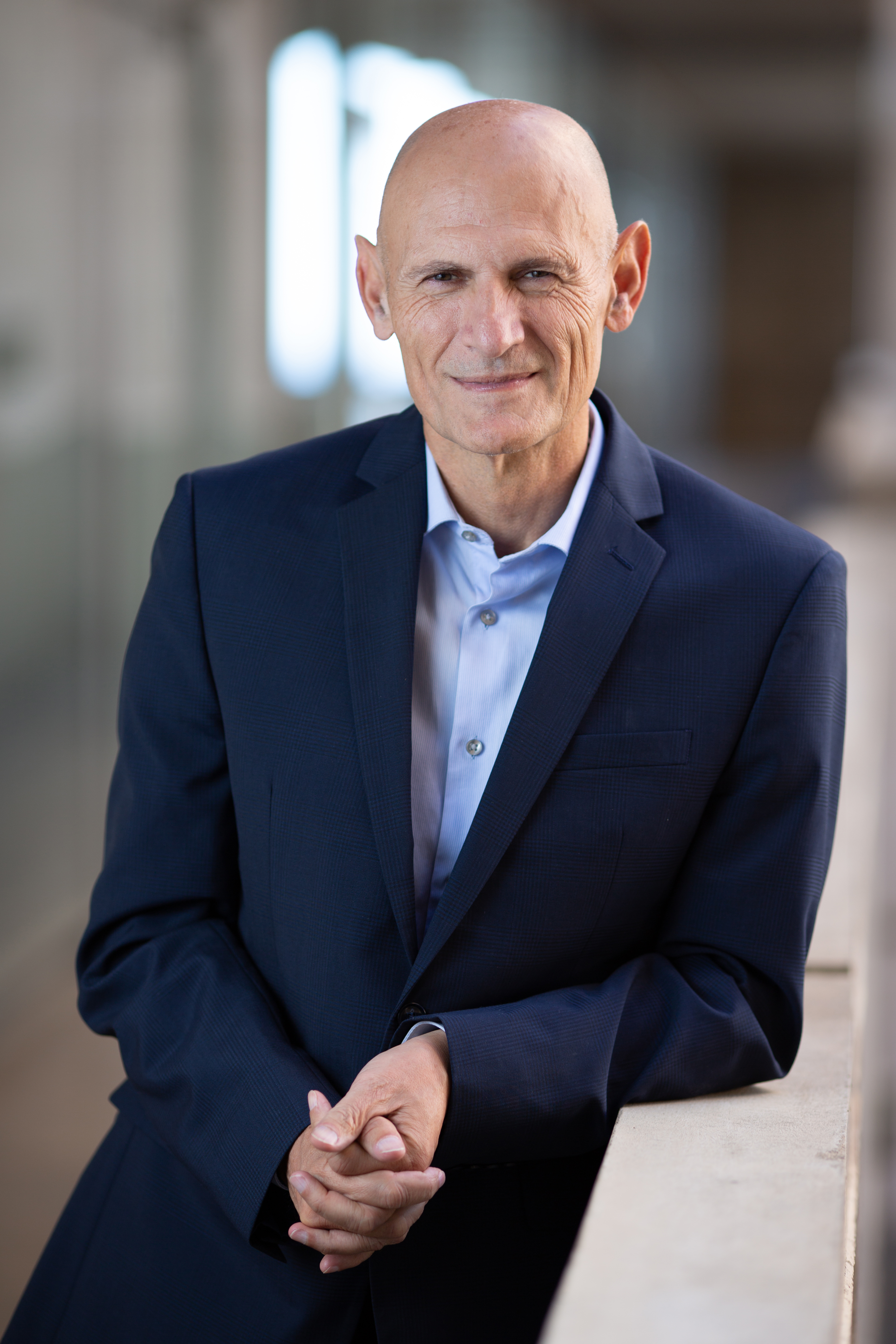 Juan Carlos Izpisua Belmonte at the Salk Institute in 2018.